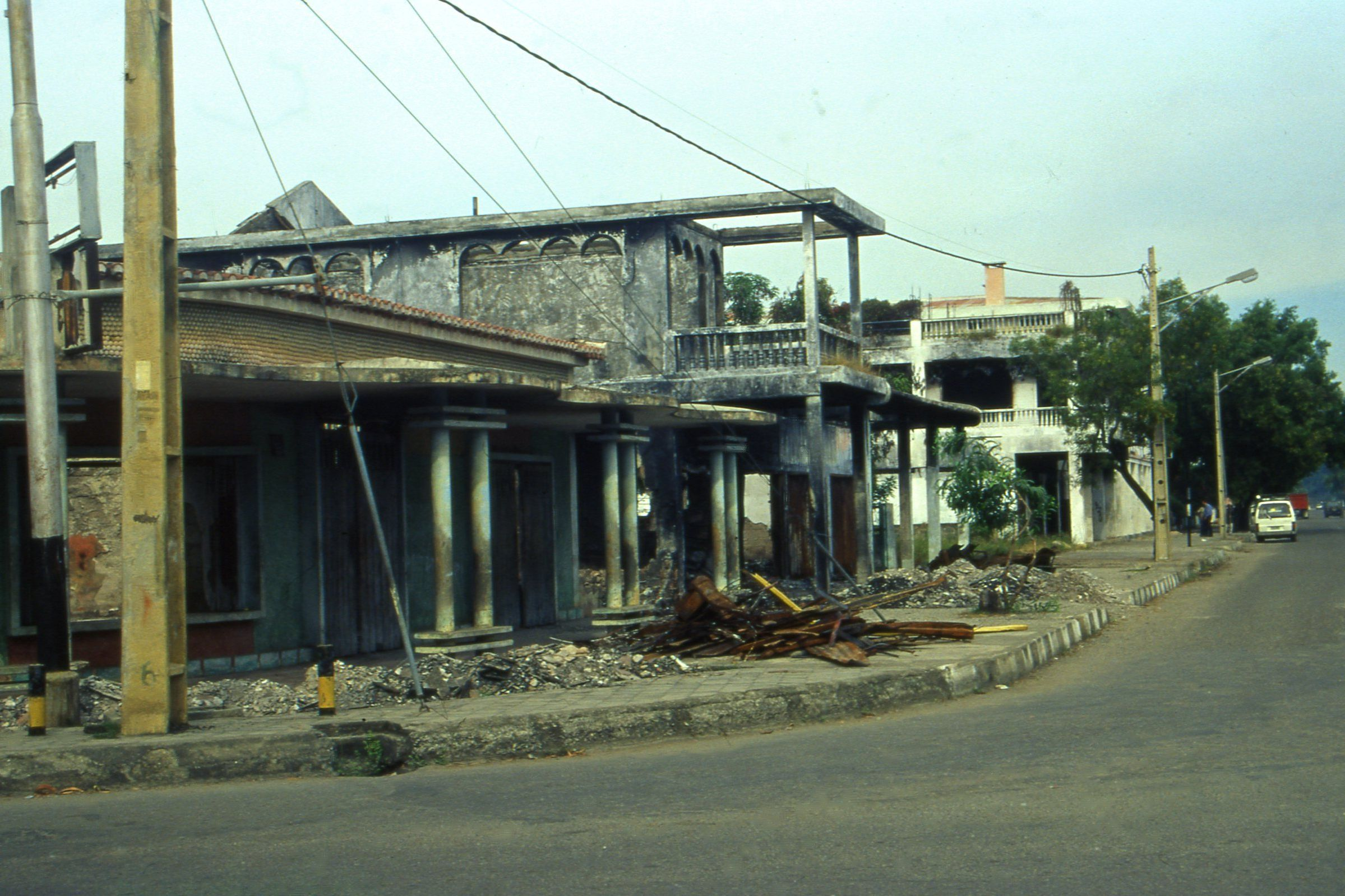 destroyed Dili in 2000